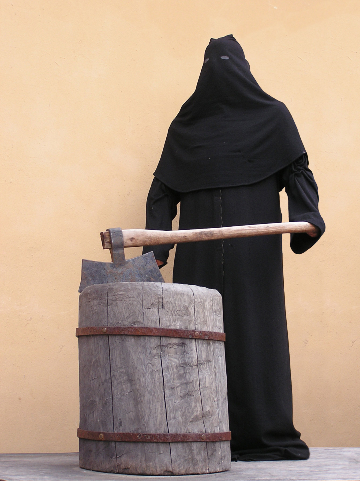 Executioner in Peter & Paul Fortress